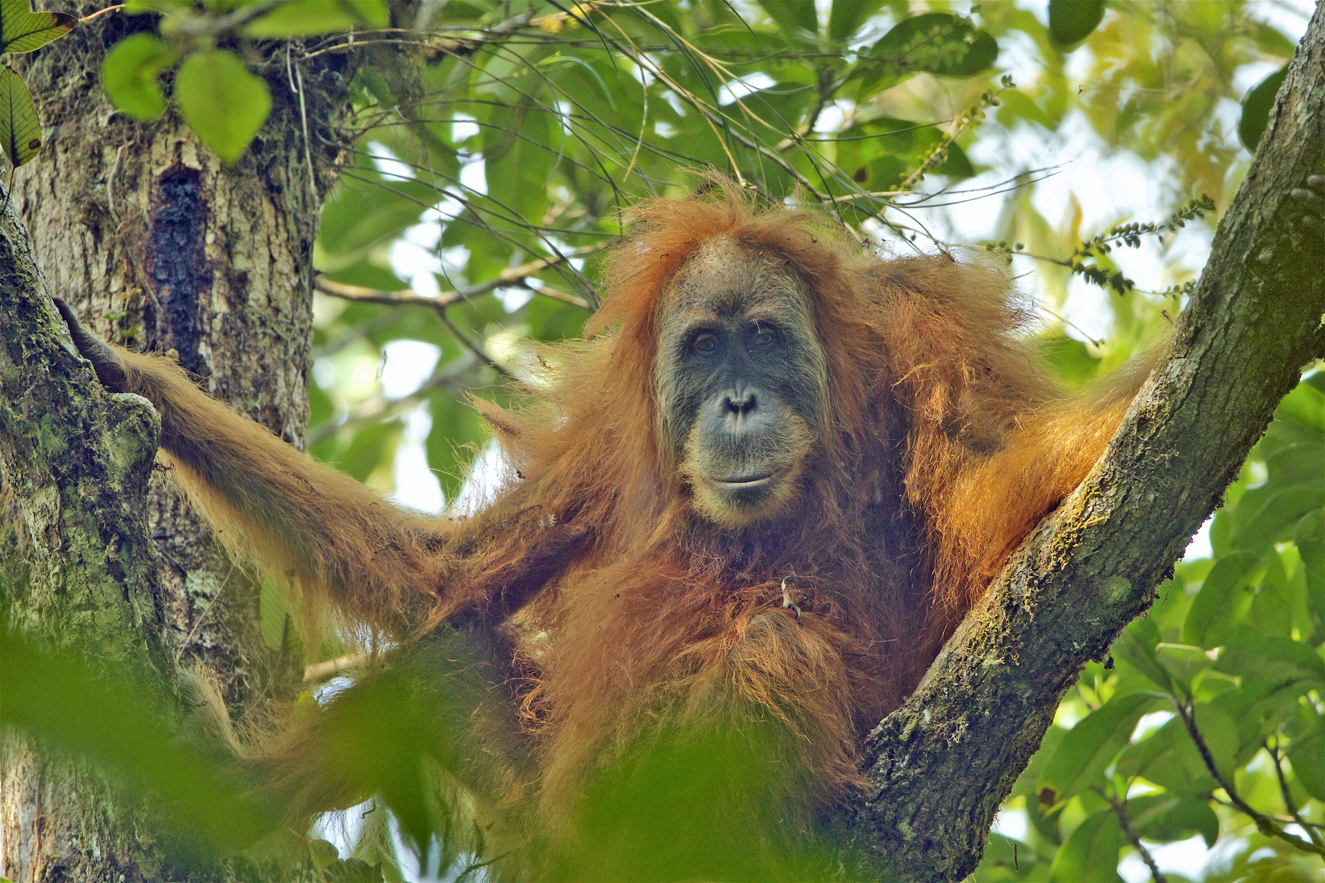 Adult female, Pongo tapanuliensis Batang Toru Forest Sumatran Orangutan Conservation Project North Sumatran Province Indonesia